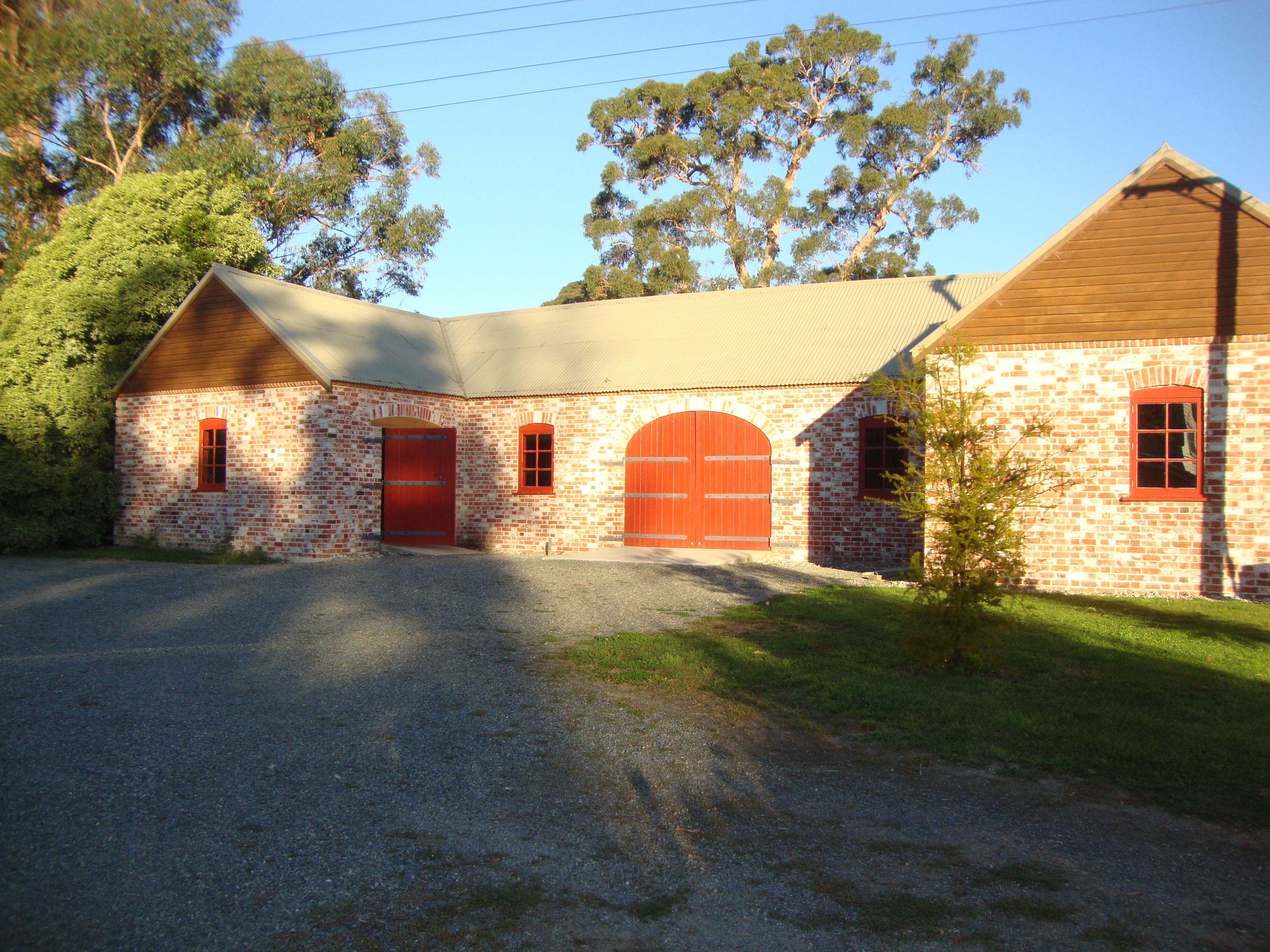 The stables of Stafford Place, rebuilt in 2008.